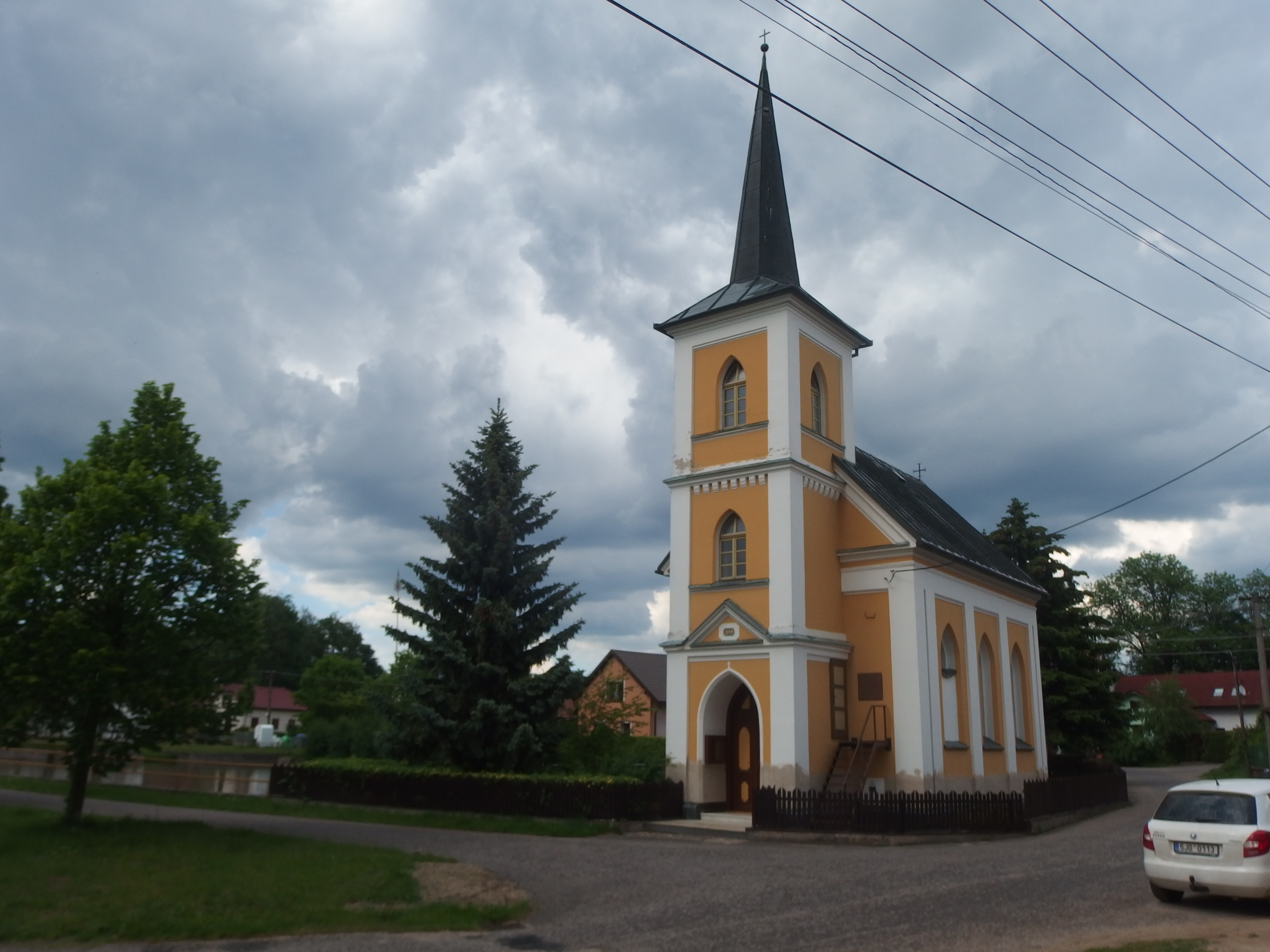 Vatín, Žďár nad Sázavou District, Czechia.